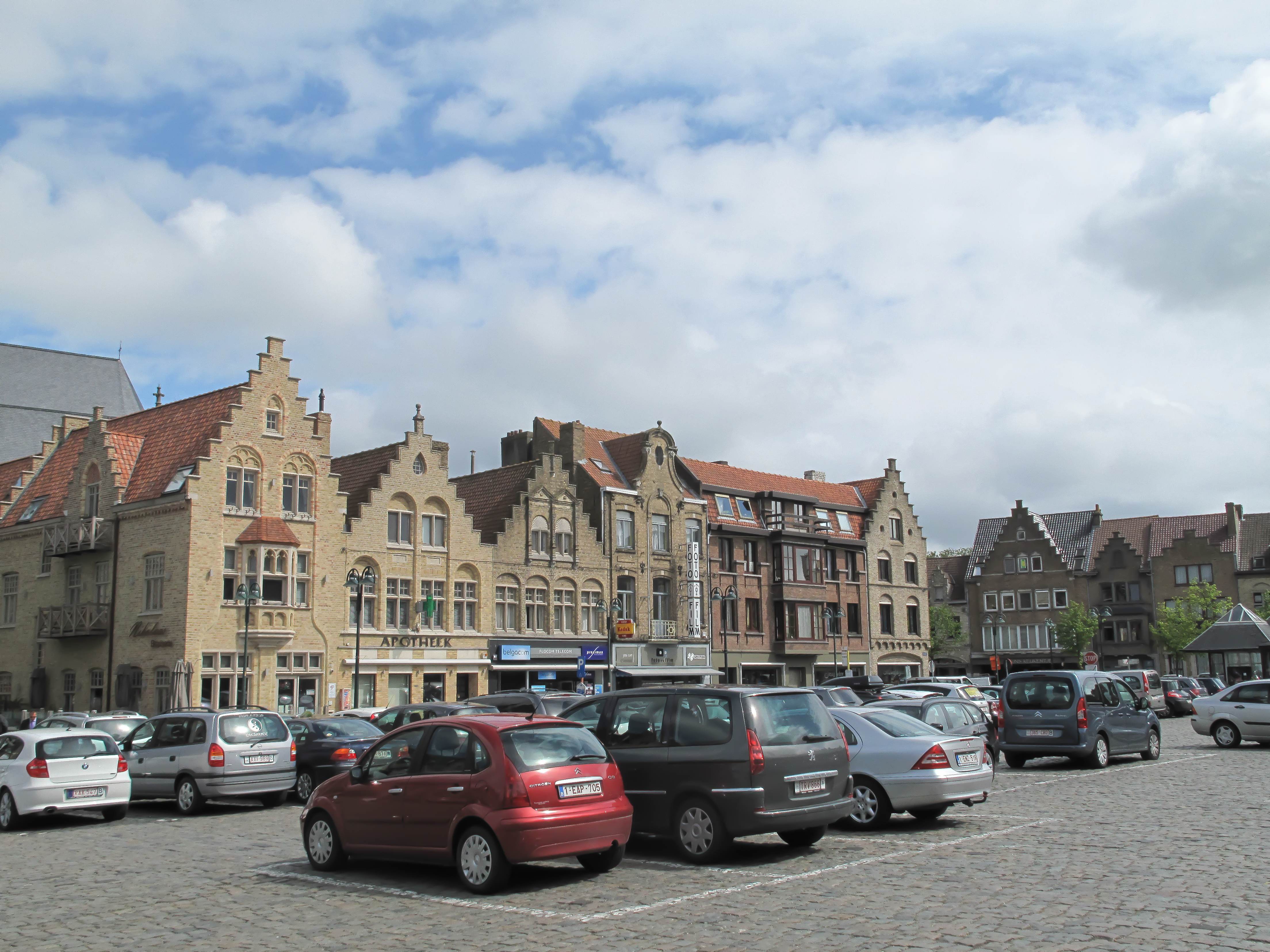 Diksmuide, central square